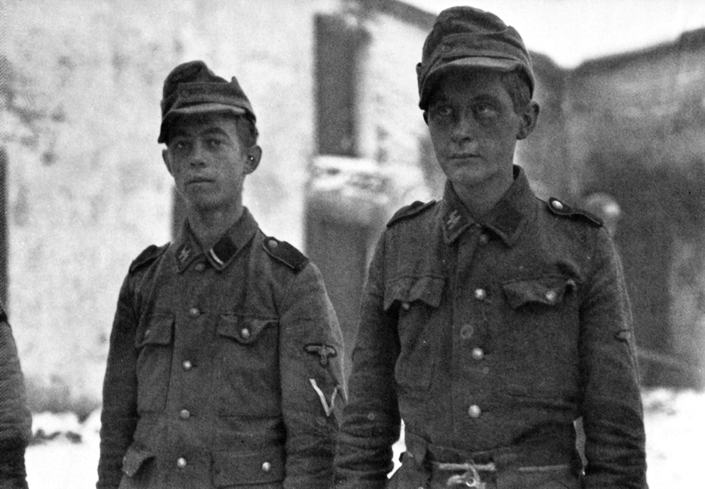 Hitler Jugend Soldiers of the 12th SS Panzer Division Captured during the Battle of the Bulge December, 1944.